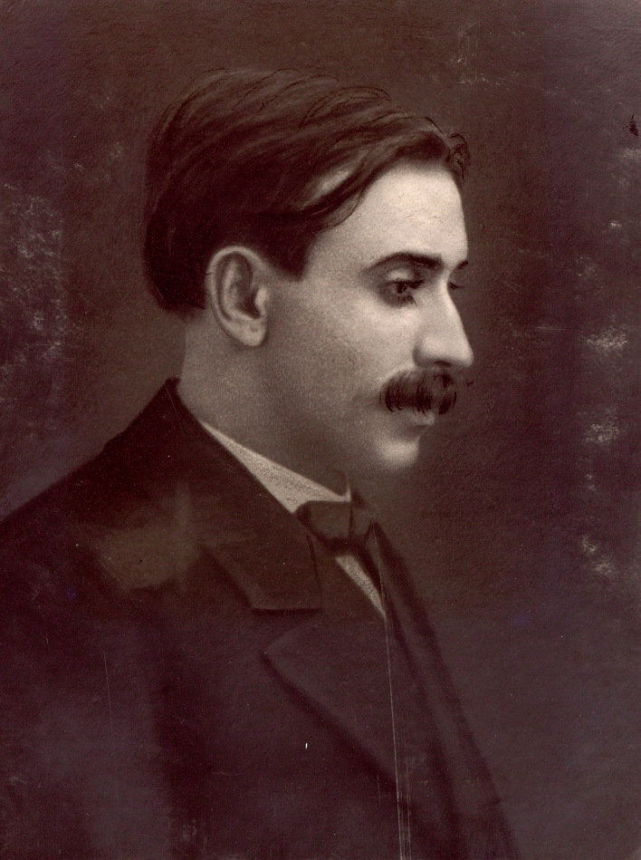 Bulgarian writer Vladimir Musakov (1887-1916)